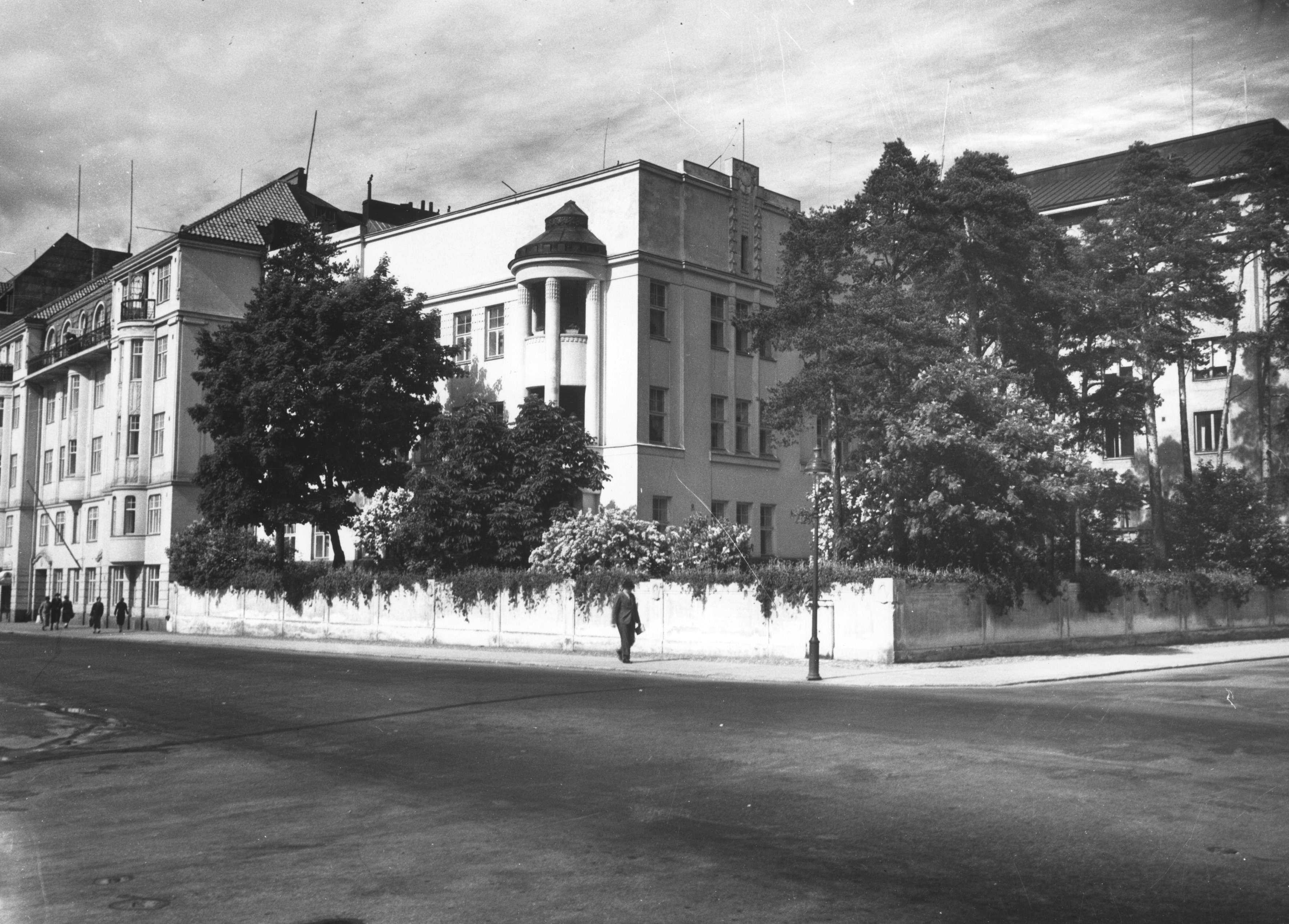 Otto Stenroth's house, designed by Lars Sonck and built in 1911 at Topeliuksenkatu 7, Helsinki, Finland. The building was demolished in the early 1950s.